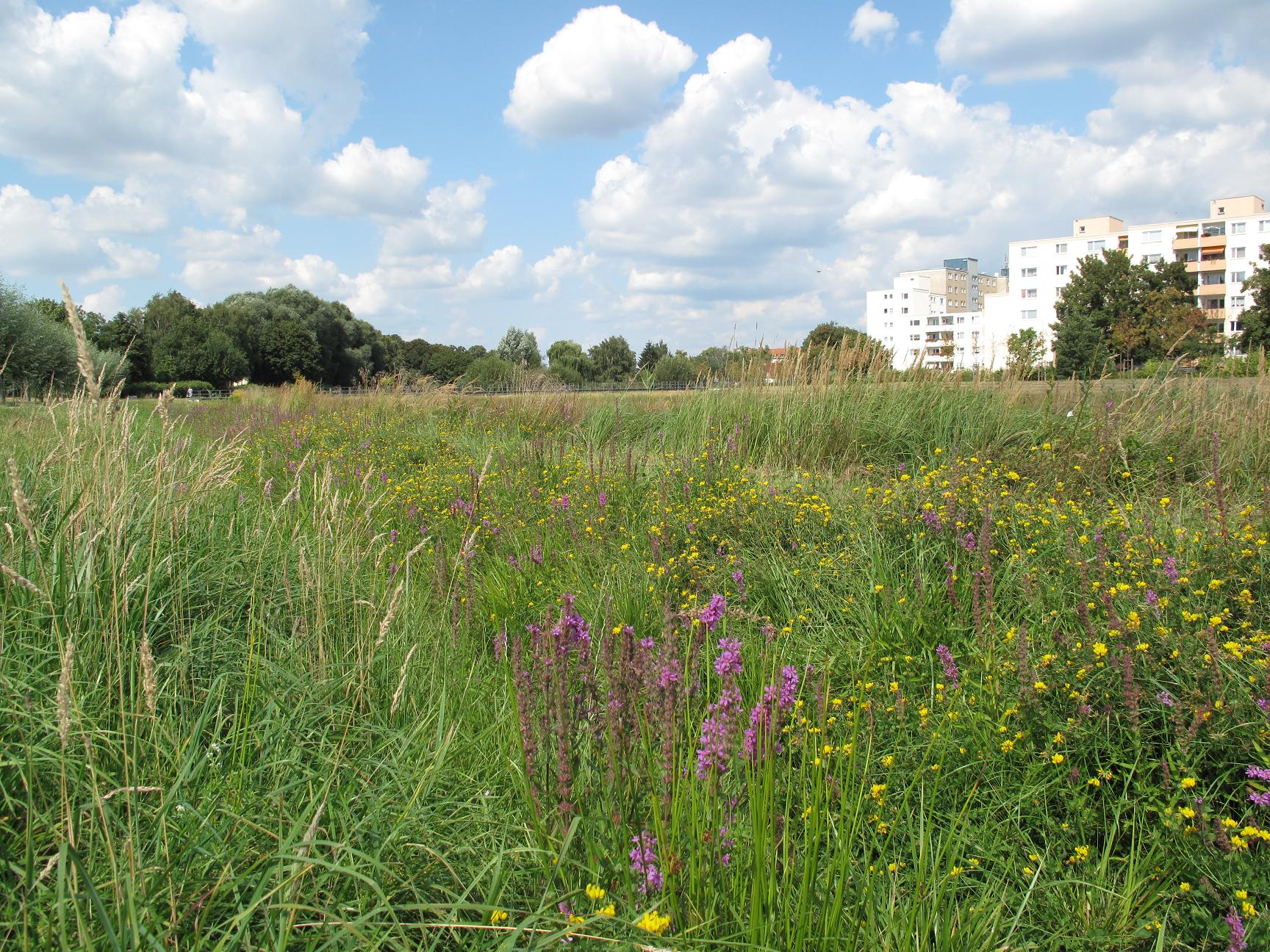 Wet meadow at the Bullengraben in Staaken. The Bullengraben (german for: bullditch) is a drainage channel to the river Havel in the localities Staaken, Wilhelmstadt and Spandau in the borough Berlin-Spandau, Germany. In 2007 there was opened the green space Bullengraben (german: „Grünzug Bullengraben“) along the 4,5 kilometre long ditch.